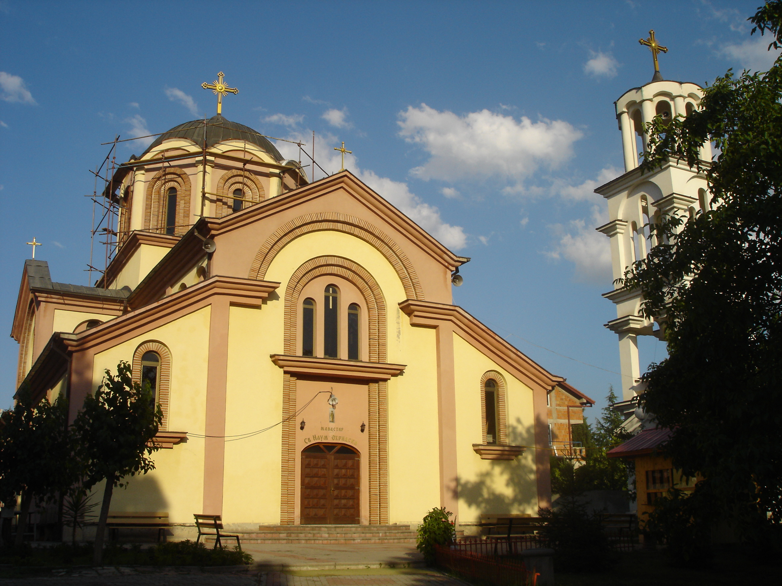 The church in Radishani, Macedonia